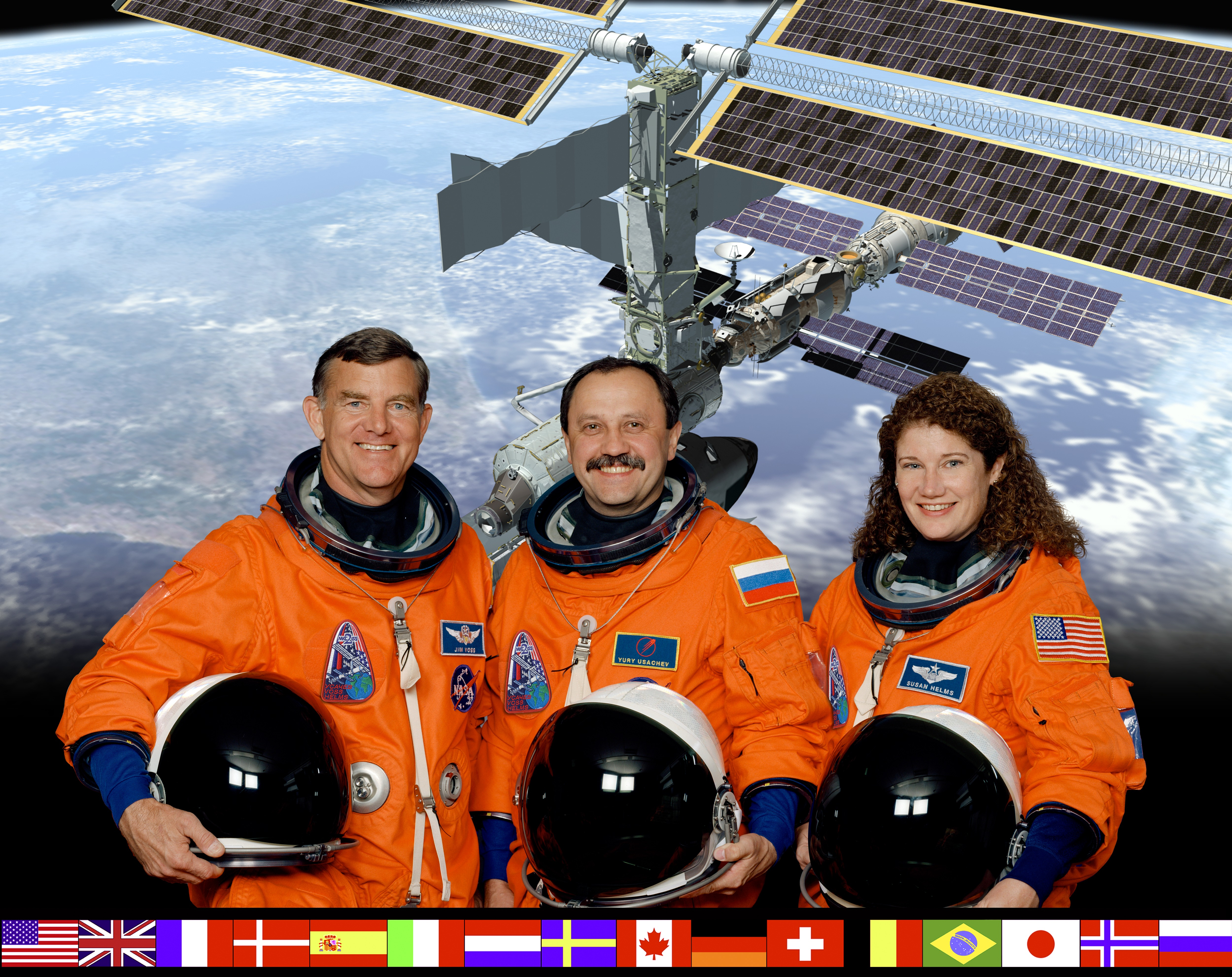 Left to right : De gauche à droite : James S. Voss, Yury V. Usachev, Susan J. Helms. Crew for the Expedition 2 to the ISS. (February 2001, NASA) Cosmonaut Yury V. Usachev (center), Expedition Two mission commander, is flanked by the other crew members--astronauts James S. Voss and Susan J. Helms--who will join him for an extended stay aboard the International Space Station (ISS), beginning in March of this year. Usachev represents the Russian Aviation and Space Agency. The flags representing all the international partners are arrayed at bottom.